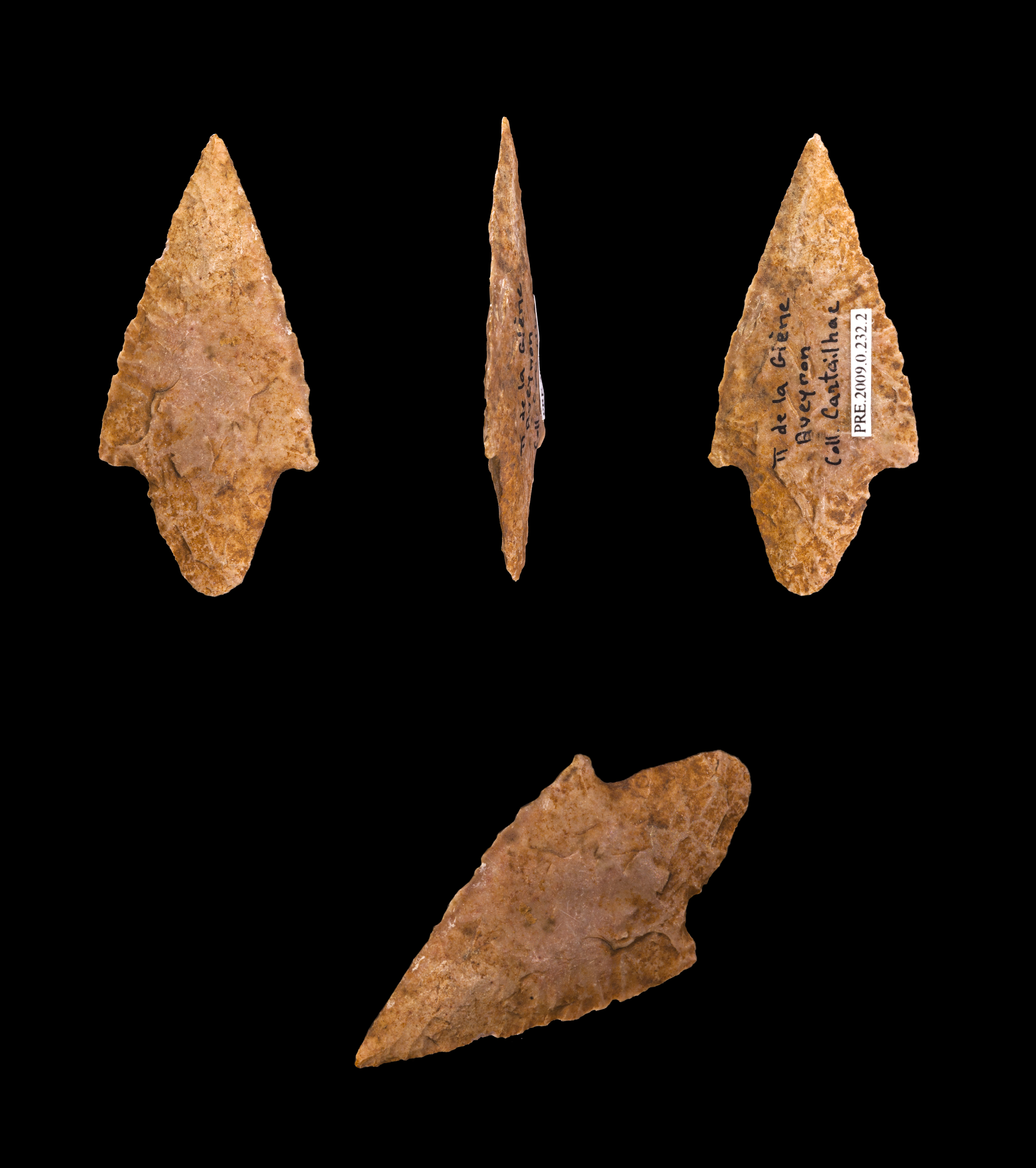 Arrowhead in Chert Stage : Later Neolithic (Rhodezian) (to – 3300 to - 2400 Before the Current Era) Locality : Dolmen de la Glène, Saint-Léons, Aveyron, France Former collection of Émile Cartailhac (1845 - 1921) Different views of the same specimen - Muséum of Toulouse MHNT.PRE.2009.0.232.2 Size : 50x20x5 mm